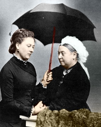 Princess Beatrice in mourning with Queen Victoria (coloured from black and white photo on Commons)